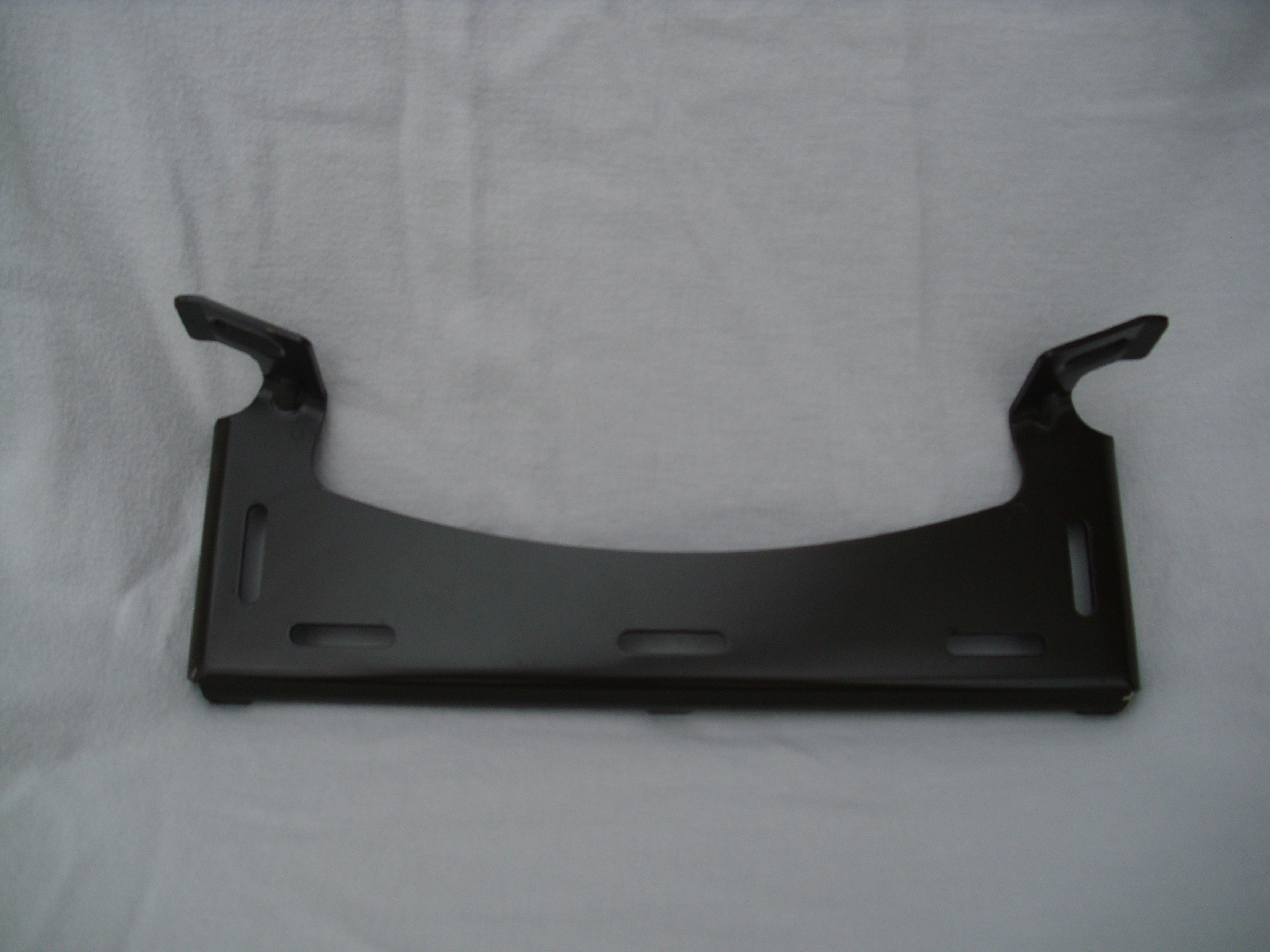 Cargo Shelf for Lightweight Rucksack Frame